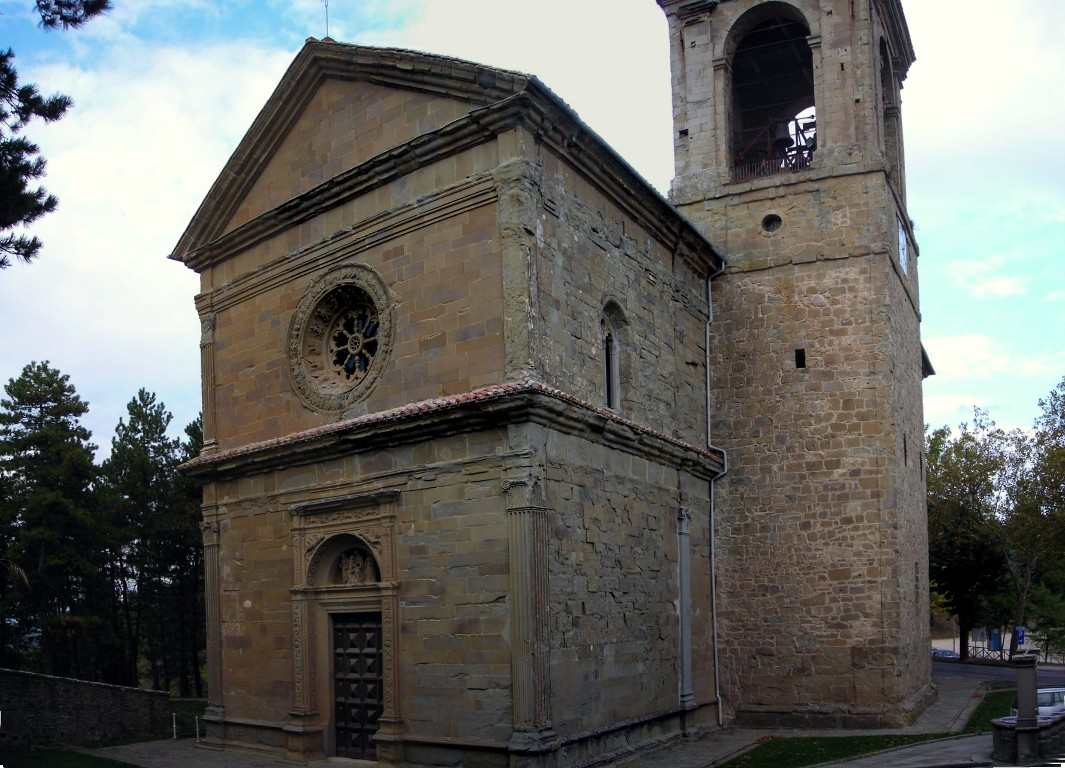 Church of Madonna dei Miracoli, Castel Rigone, Passignano sul Trasimeno, Perugia, Umbria, Italy